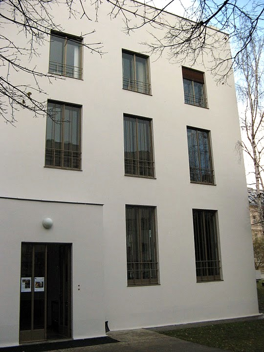 Haus Wittgenstein, also known as Stonborough House, partly built and designed by the philosopher Ludwig Wittgenstein, in Kundmanngasse, Vienna. Since 1975 it has housed the Bulgarian Embassy.